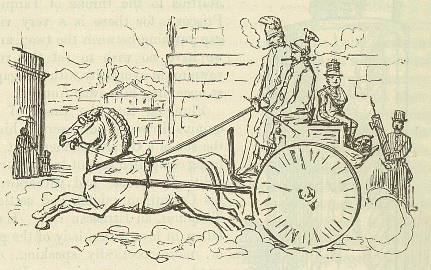 Image by John Leech, from: The Comic History of Rome by Gilbert Abbott A Beckett. Bradbury, Evans & Co, London, 1850s Celeres